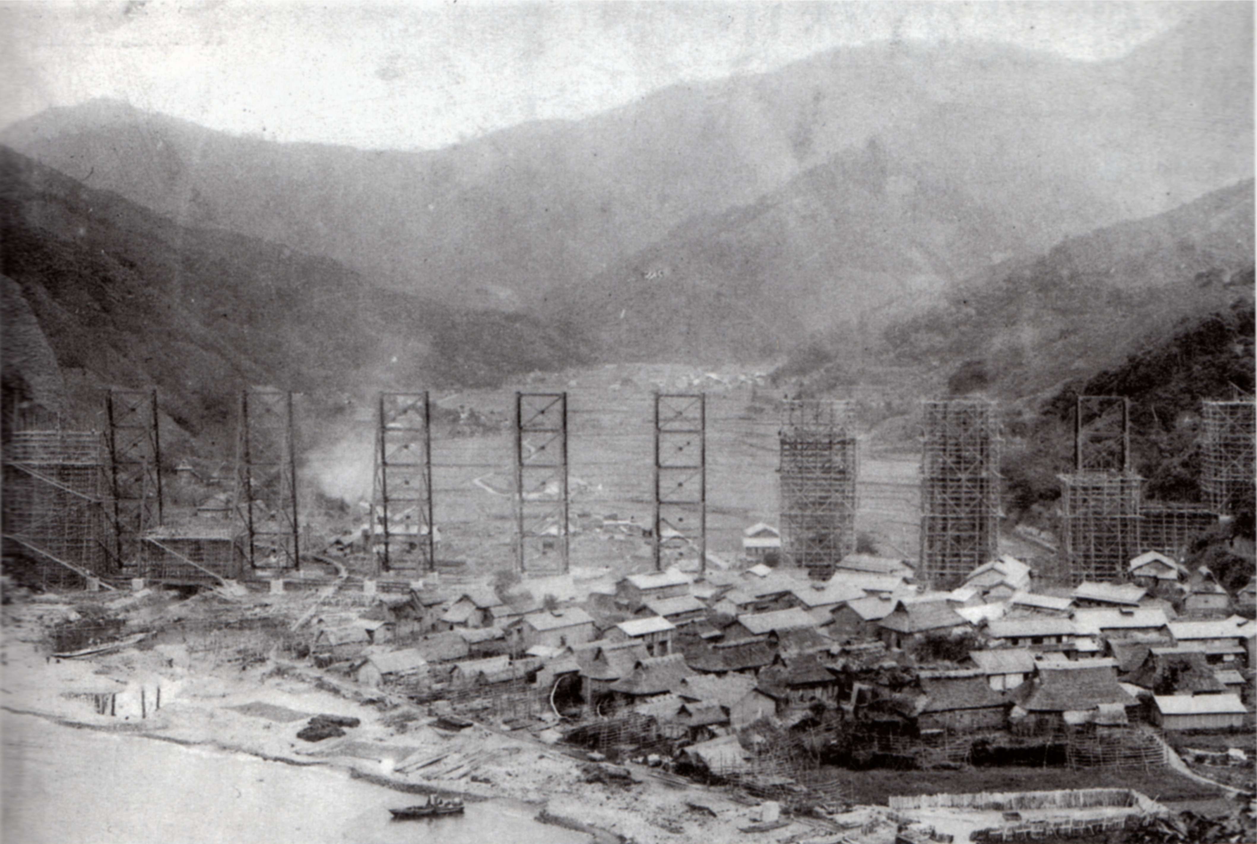 Construction work of piers for Amarube viaduct.